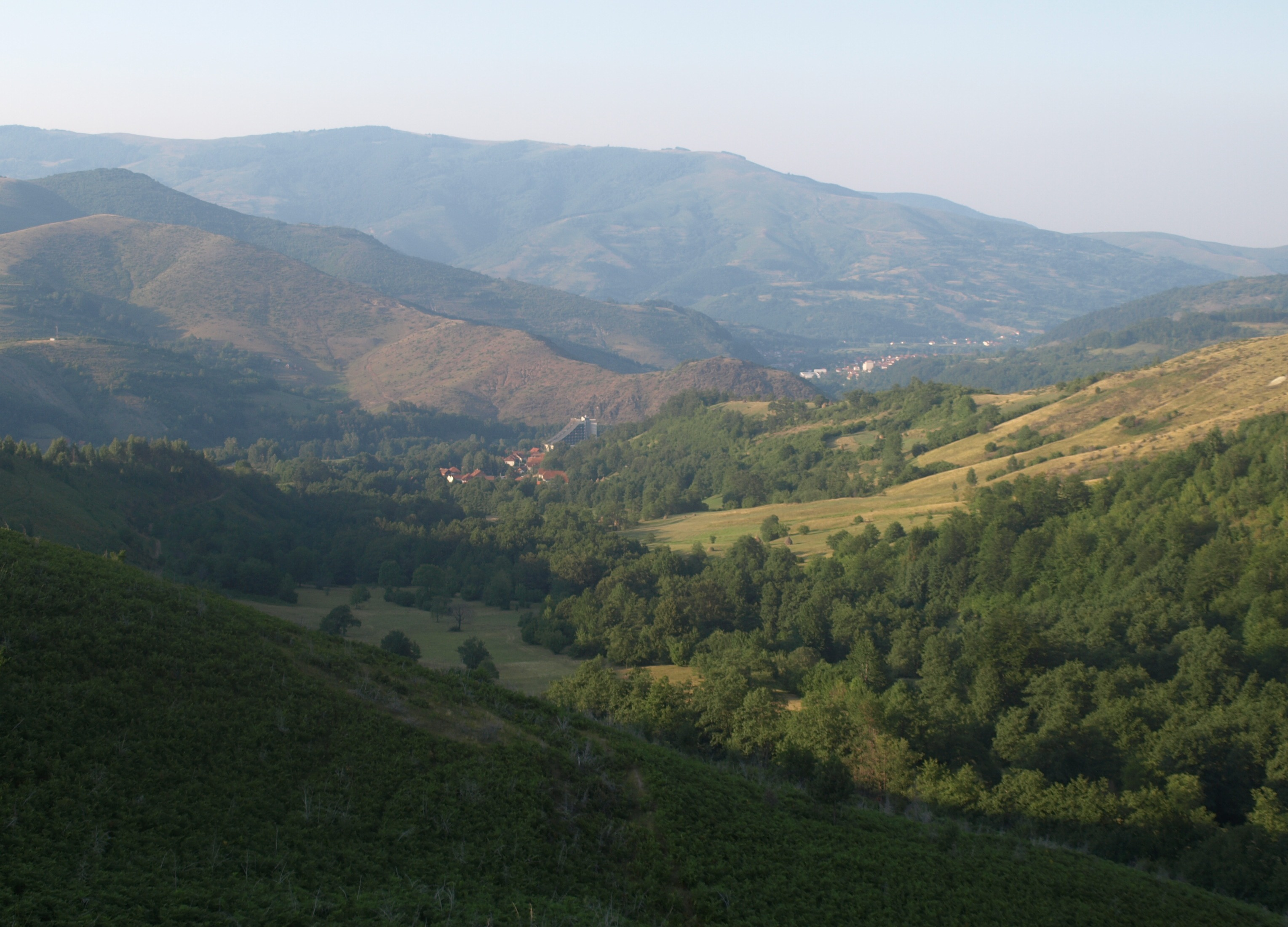 Ski resort Brezovica an city of Štrpce in Kosovo